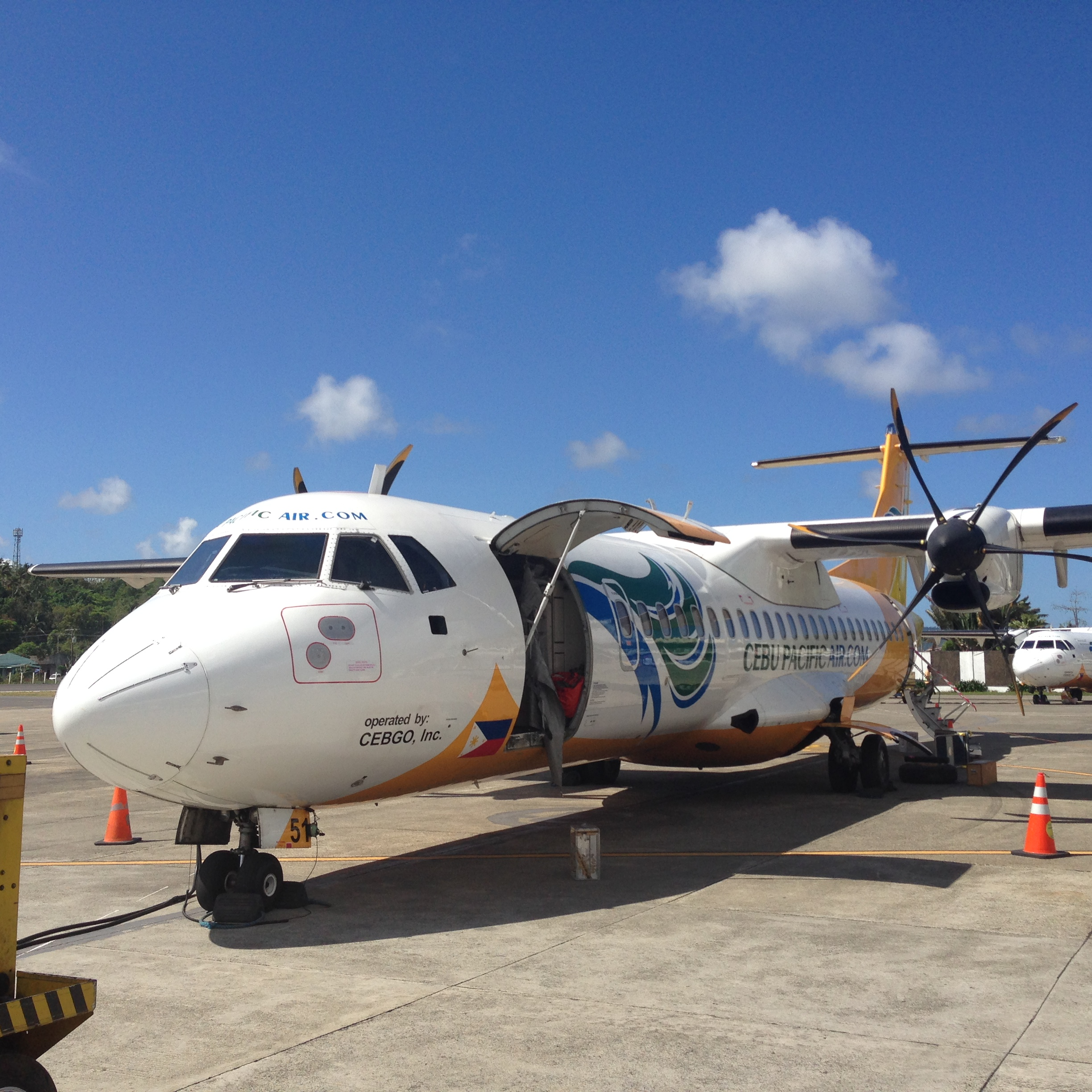 A wander across the ramp at MPH allows you to get close to the parked aircraft. Here are two ATRs from the Cebu network (one peeking behind). This one is waiting for its load to Manila.